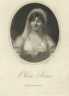 Engraving of Olivia Serres (died 1834)